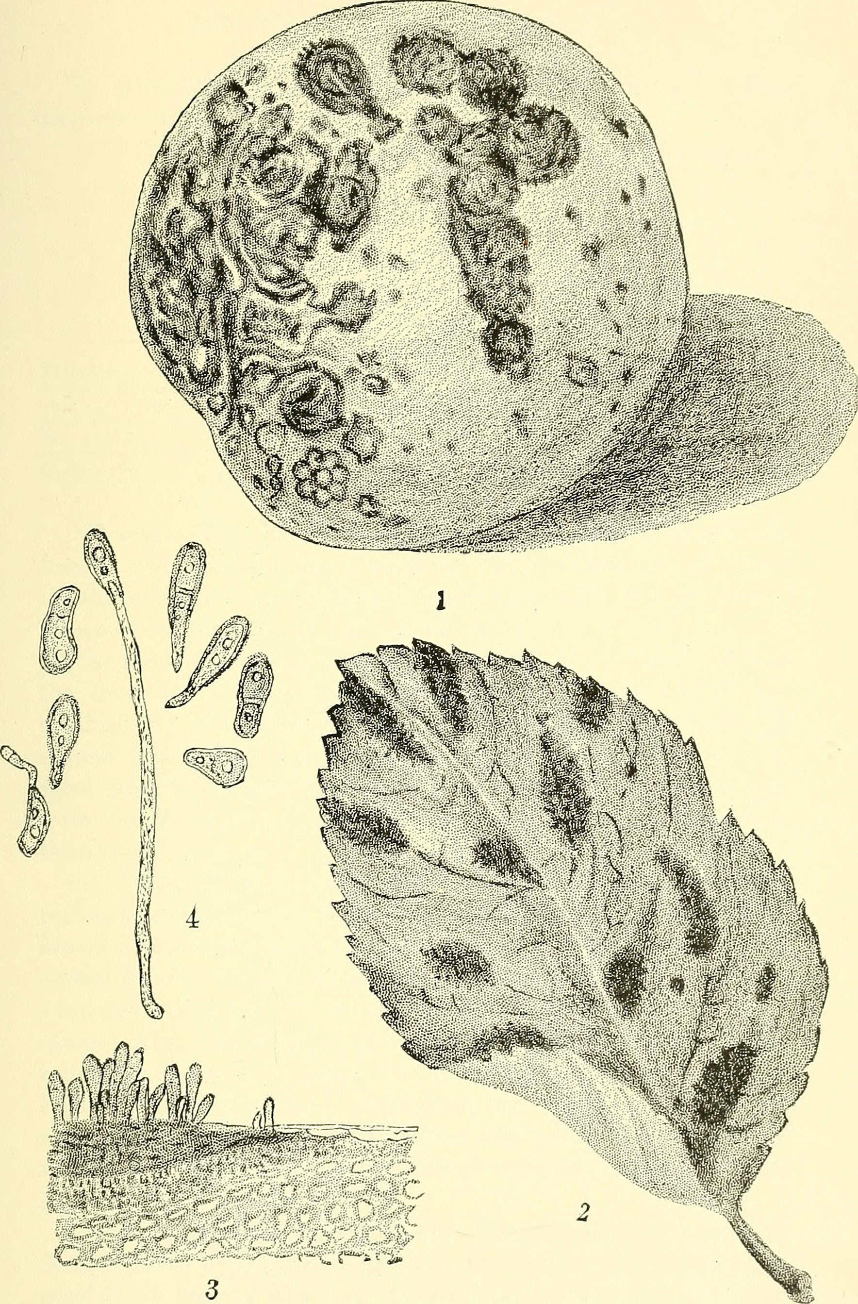 Title: Annual report of the Maine Agricultural Experiment Station Identifier: annualreportofma1889main Year: 1885-1953. (1880s) Authors: Maine Agricultural Experiment Station Subjects: Agriculture; Agriculture Publisher: [Orono, Me. : Maine State College] Text Appearing Before Image: Maine State College Experiment Station Report,- PLATE V. Text Appearing After Image: APPLE SCAB. (FusicJadium dendritkum,) After Geo. Marx, by Hannah Lord.